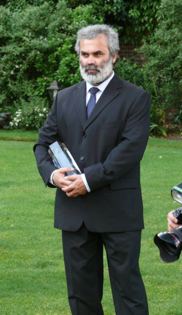 Vladimír Buřt got Josef Vavroušek price 2009